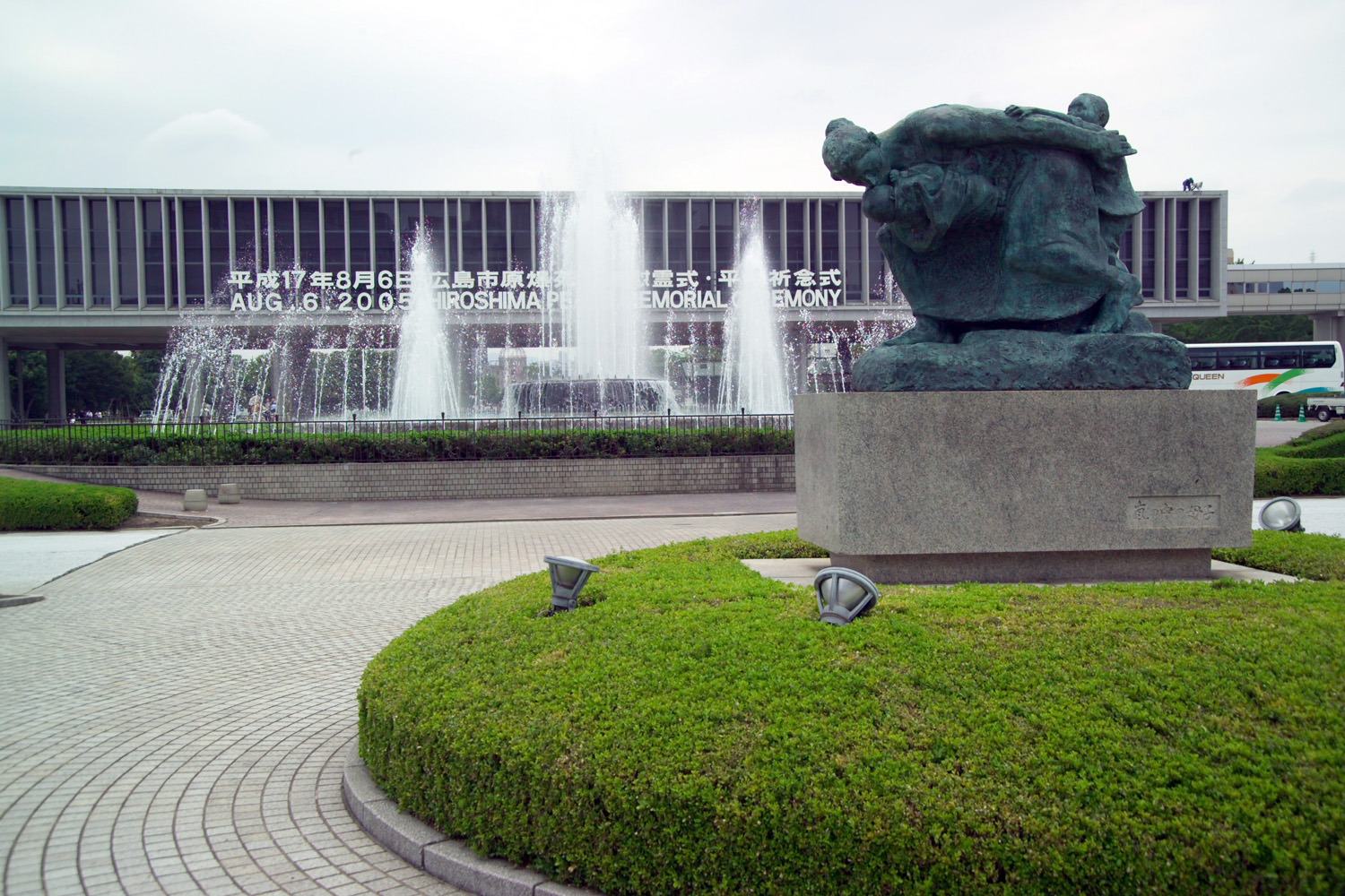 This photograph shows three landmarks in Peace Memorial Park, Hiroshima, Japan: Statue of Mother and Child in Storm (foreground) Fountain of Prayer (middle) Peace Museum (background)